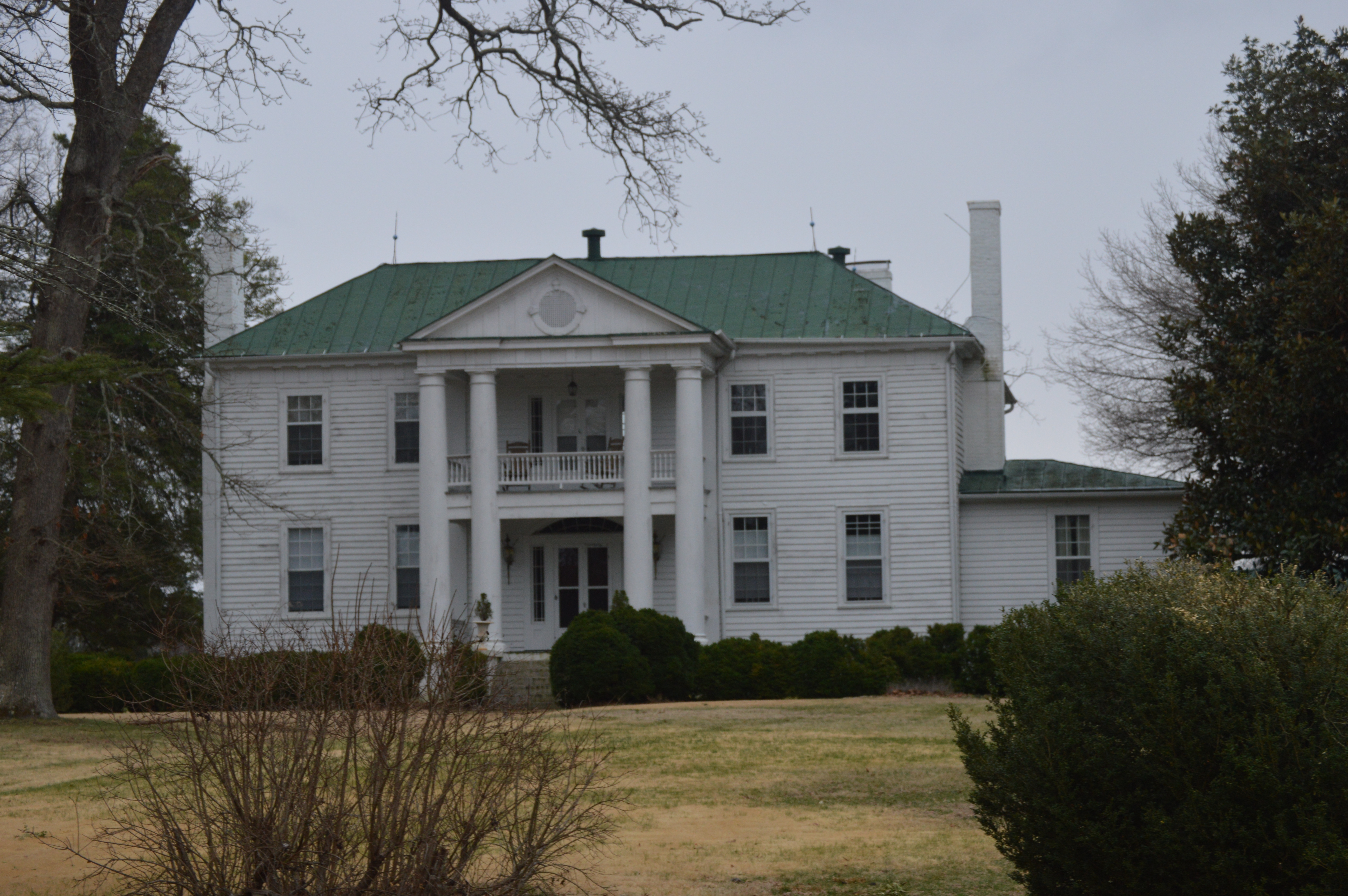 Roadside view of the Oak Ridge estate house, located at 2345 U.S. Route 311 west of Danville in Pittsylvania County, Virginia, United States. Built in 1840, it is listed on the National Register of Historic Places.